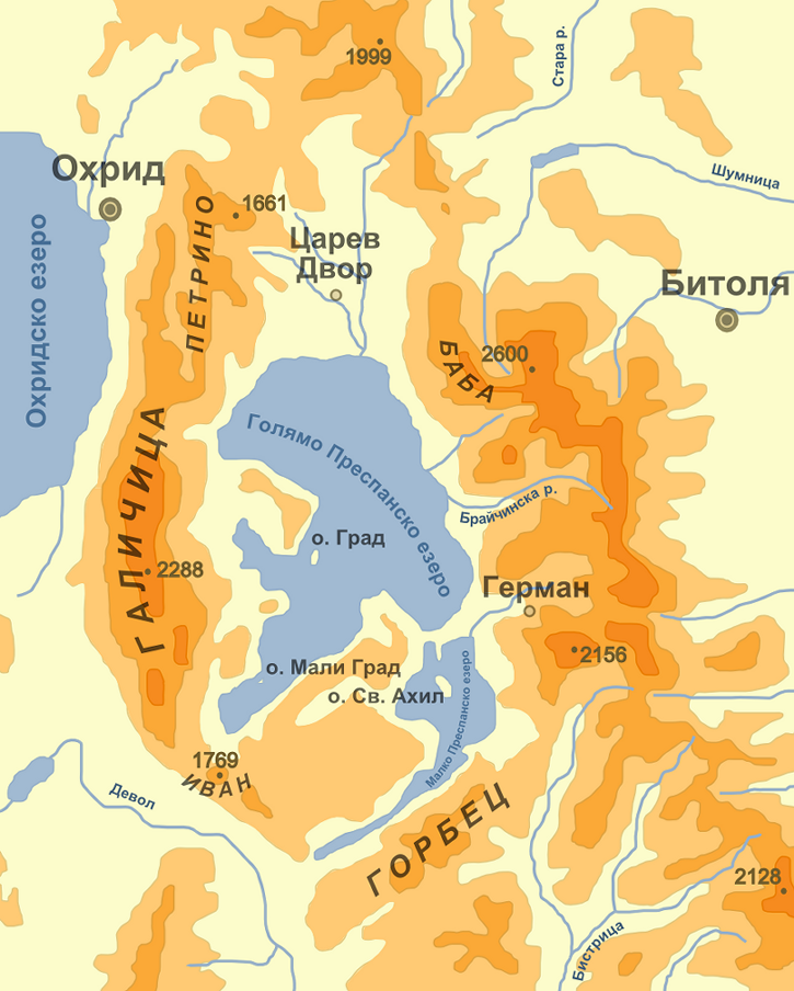 Prespa valley (Great Prespa Lake, Small Prespa Lake, Golem Grad Island, Mali Grad Island, Agios Achillios Island, Baba, Galiciza, Germanos)